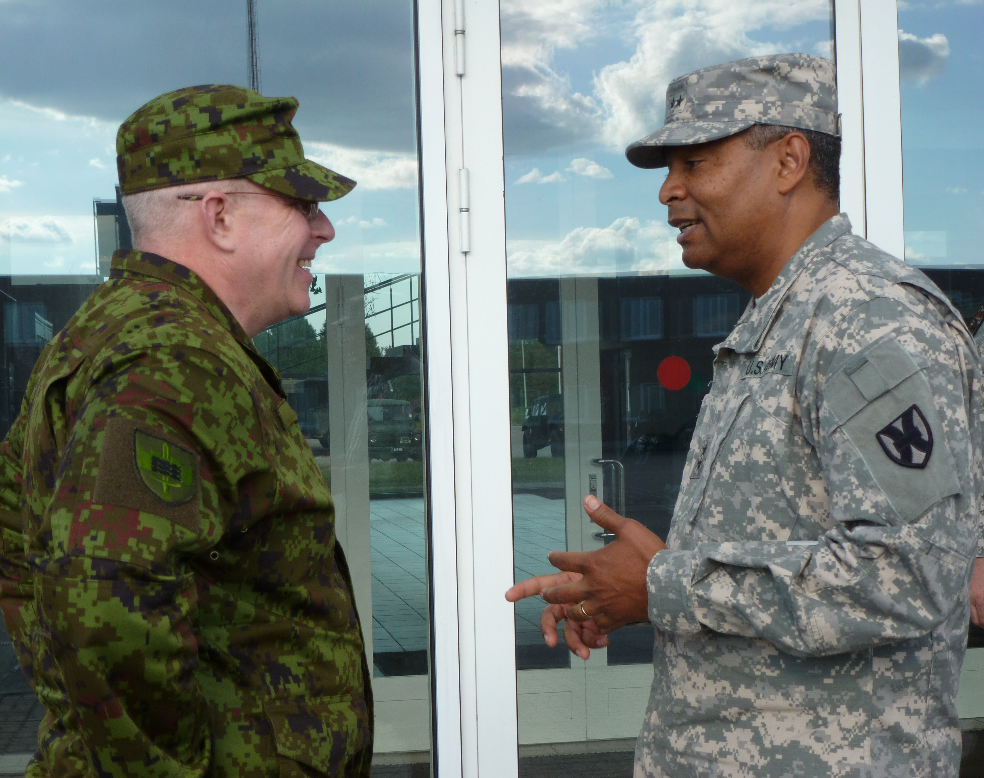 Maj. Gen. Aundre Piggee, and Estonian Col. Indrek Sirel, the co-directors of Saber Strike 2012, share some thoughts right outside of the Combined Joint Task Force Headquarters in Tapa, Estonia, June 14. The main objective for the exercise is to improve NATO interoperability and strengthen the relationship between military forces of the U.S., Baltic nations and other participating nations. (Photo by Sgt. Maj. Rodney Williams, 21st TSC Public Affairs)